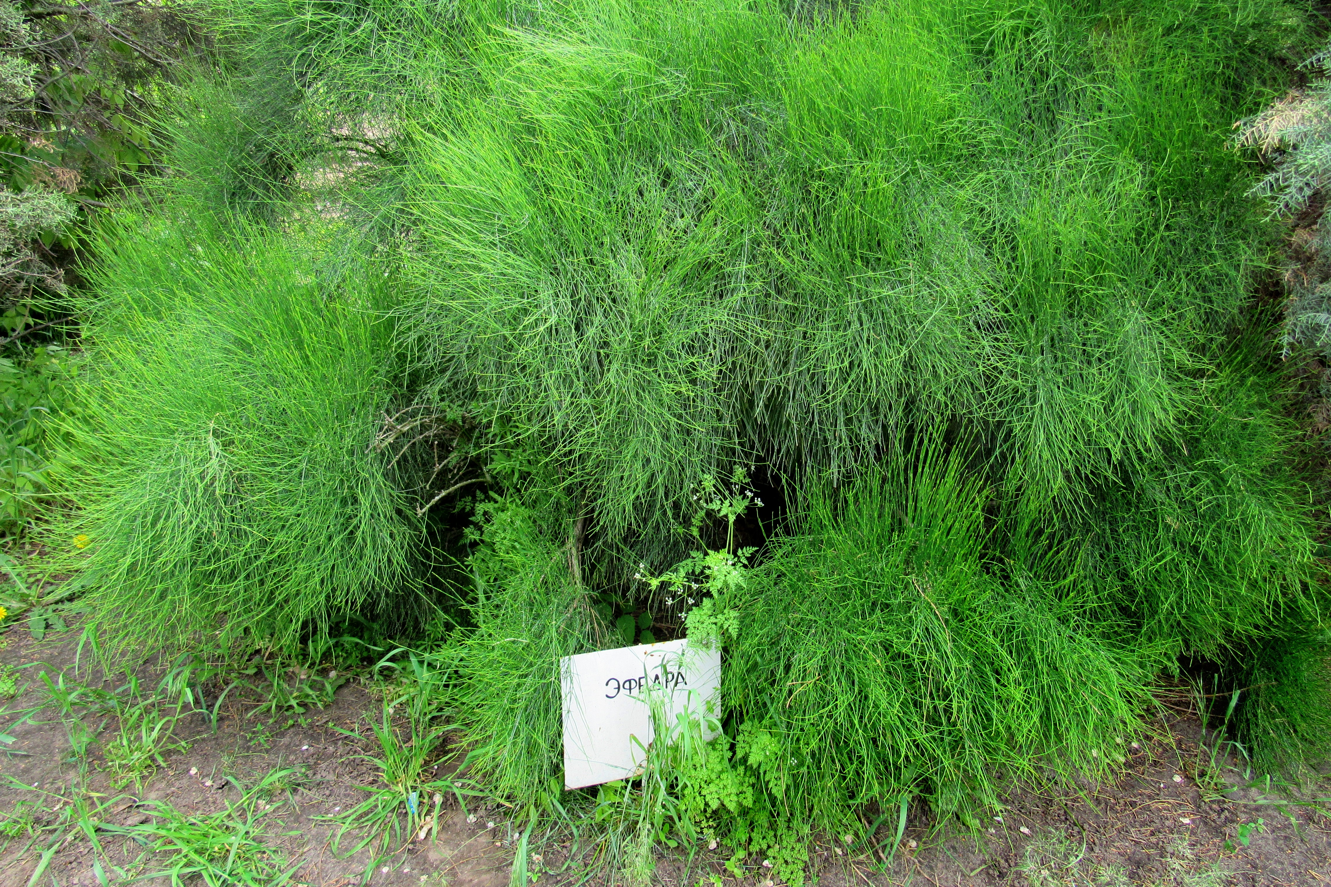 Bush of Ephedra Cultural.